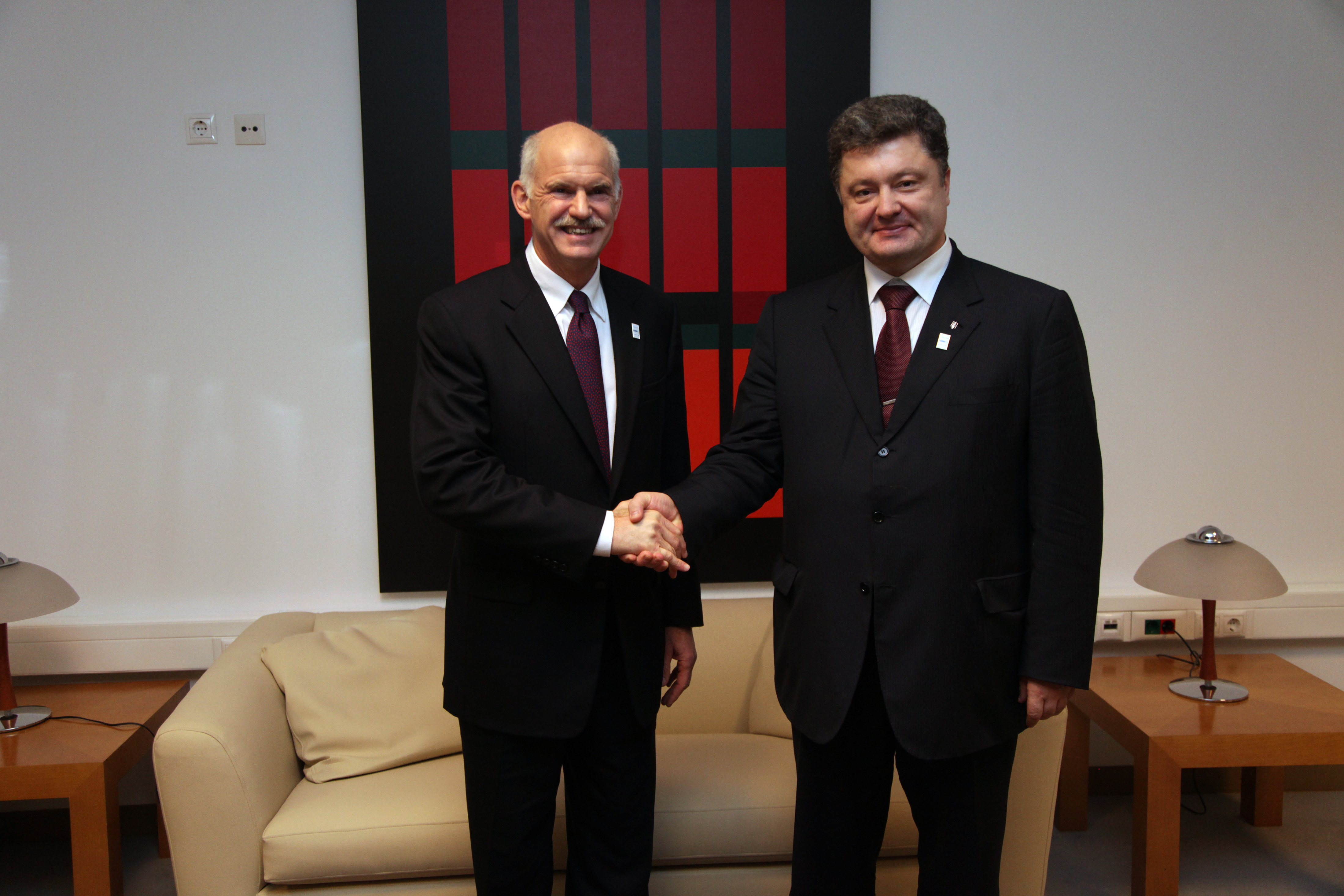 George Papandreou and Petro Poroshenko in Greece 2009